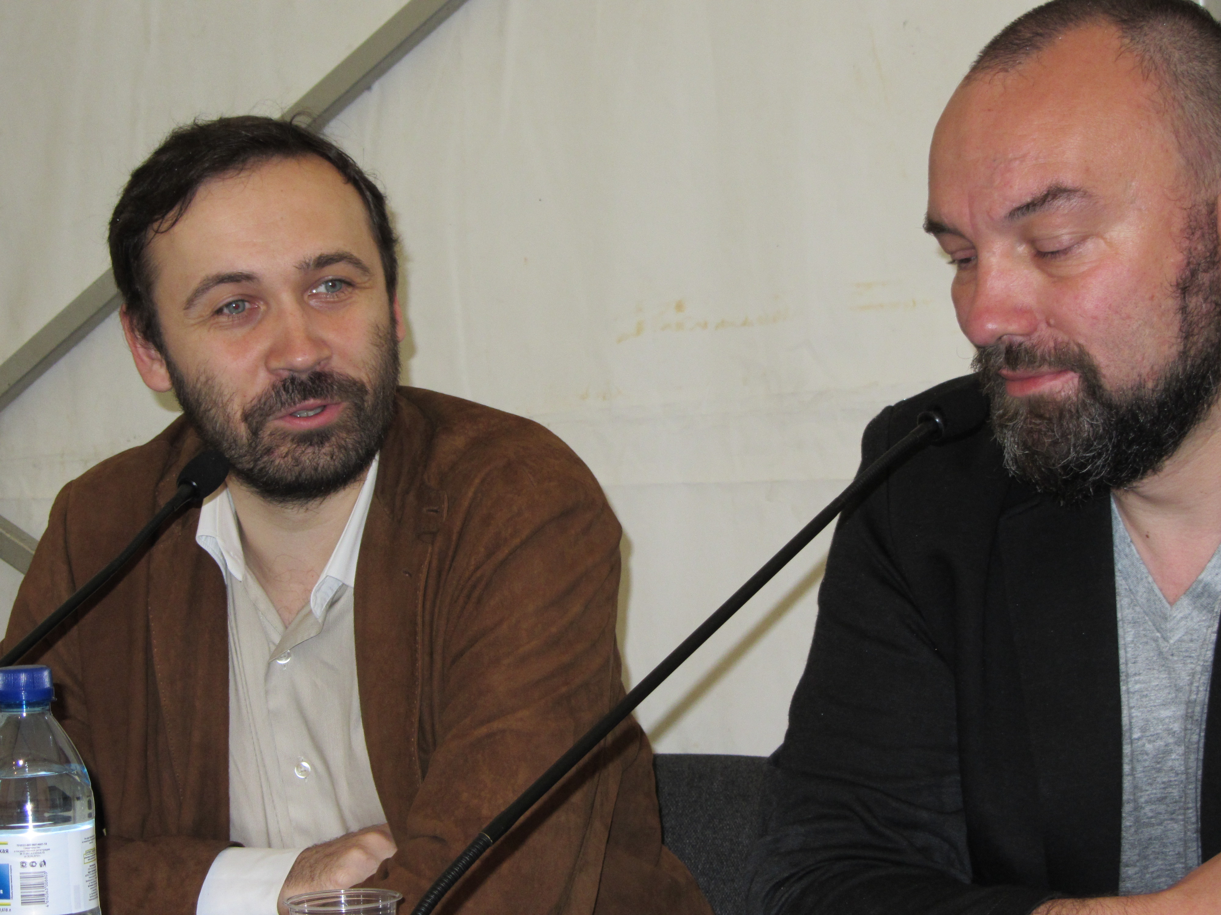 Russian politician Ilya Ponomarev with editor Boris Kupryanov at the 7 Moscow International Book Festival, 2012